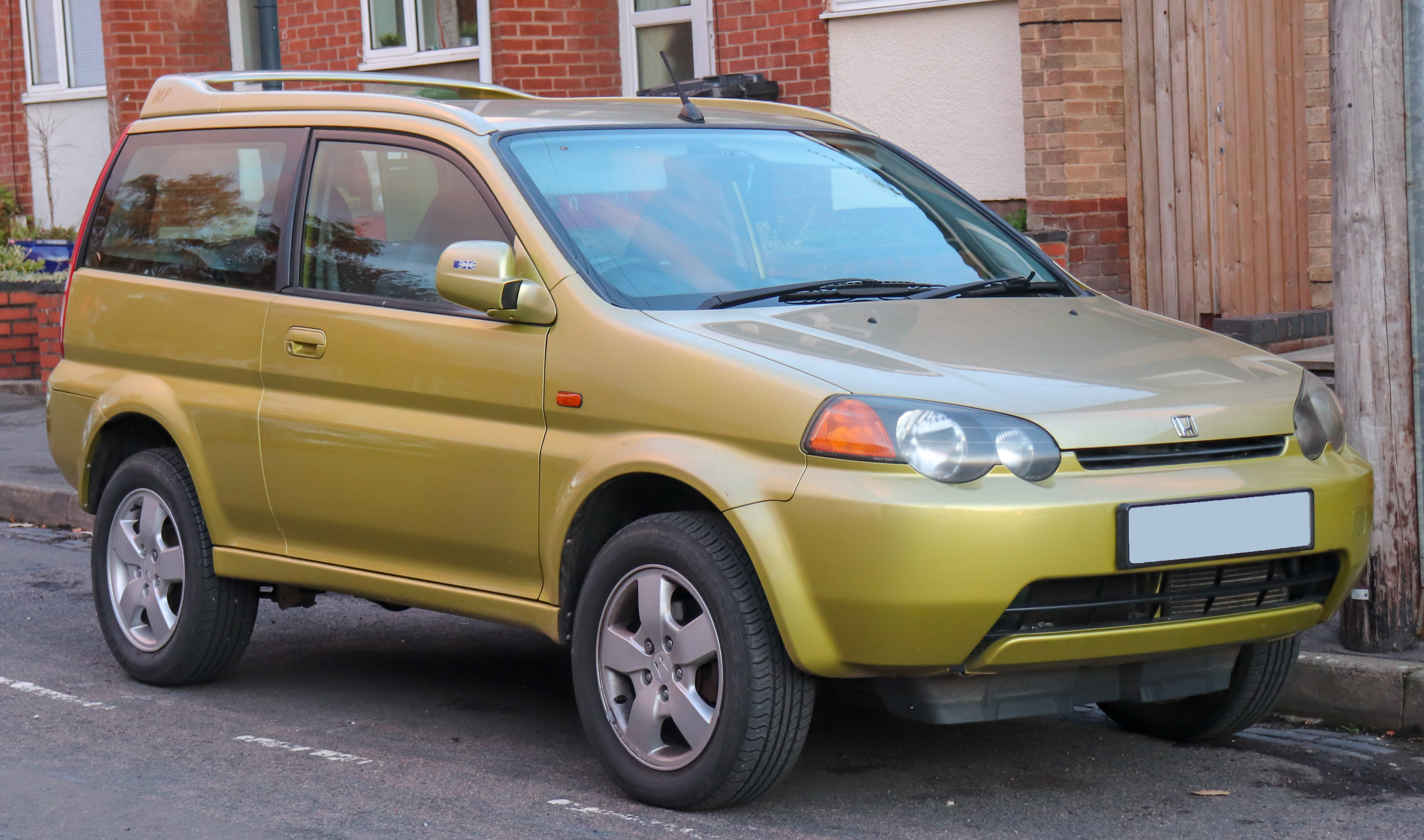 1999 Honda HR-V Automatic 1.6 Front Taken in Warwick